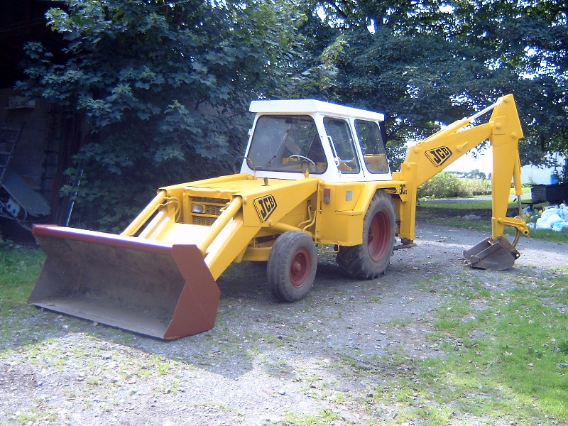 A restored mid-1970's JCB 3C MkII backhoe loader, showing the conventional arrangement of front loader (left) and backhoe (right)